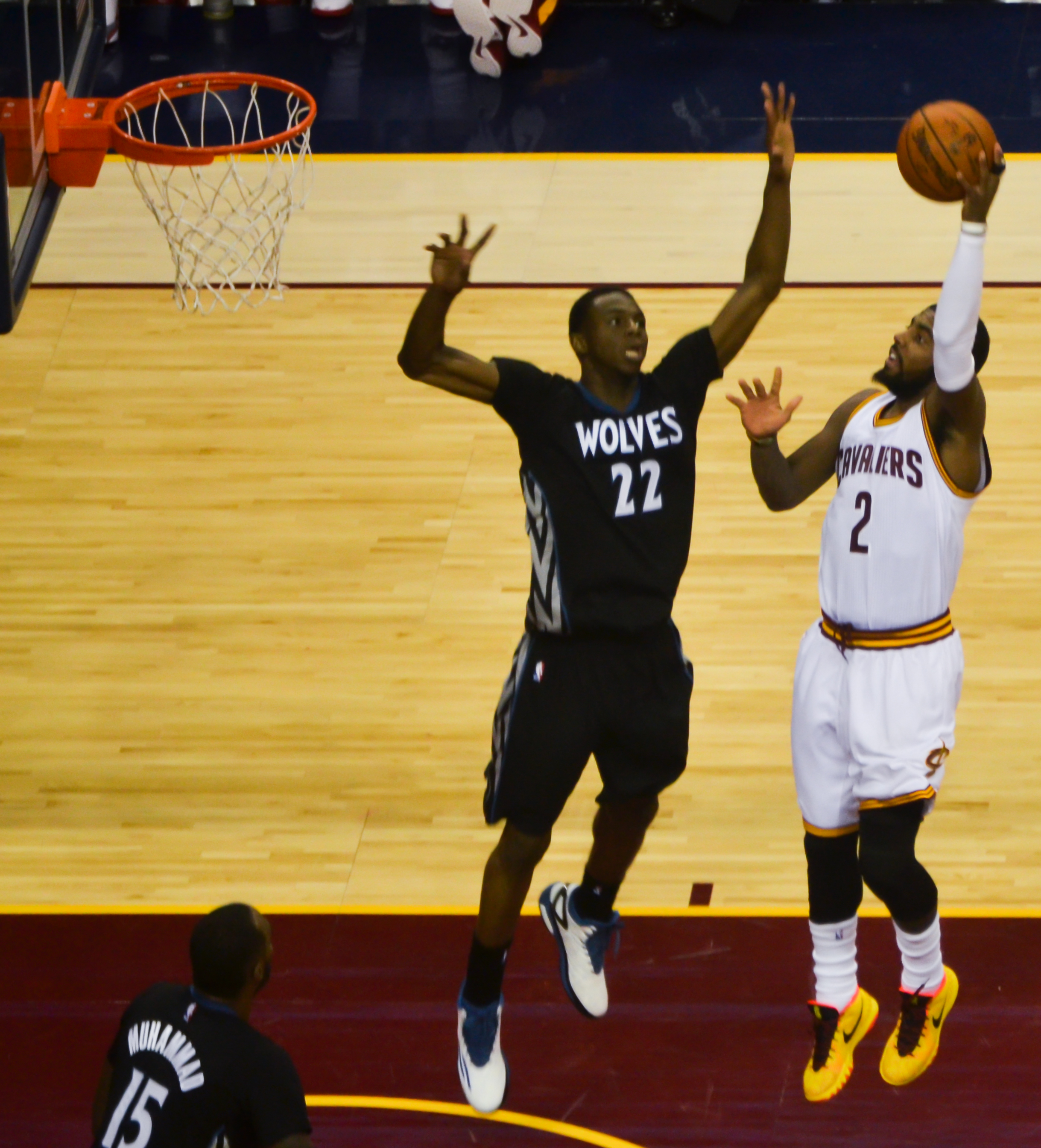 Andrew Wiggins (Minnesota Timberwolves) and Kyrie Irving (Cleveland Cavaliers)